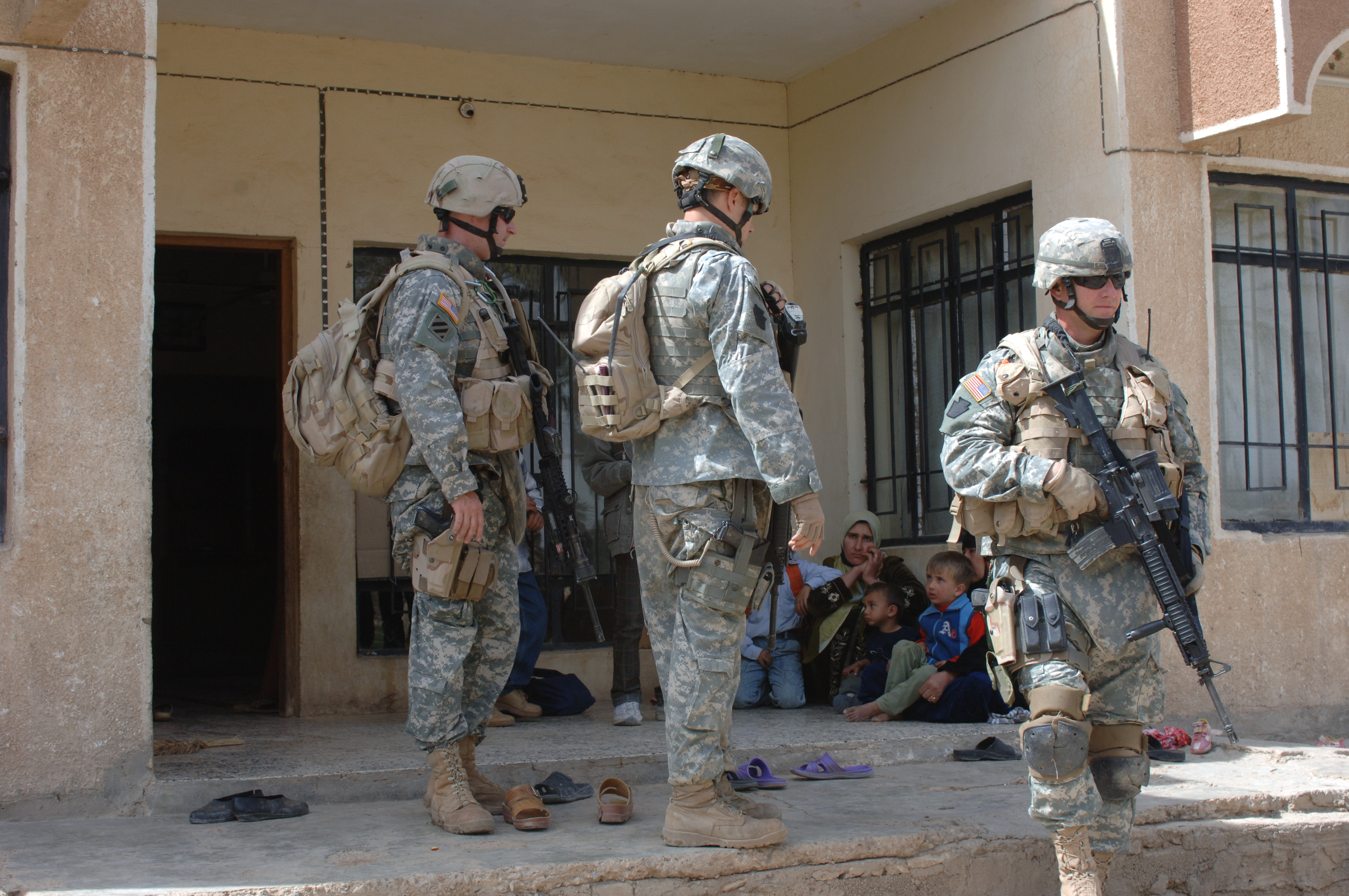 U.S. soldiers, with Bravo Company, 1st Battalion, 109th Infantry Regiment, 28th Infantry Division, Pennsylvania Army National Guard, conduct a foot patrol through a village outside of Forward Operating Base Blue Diamond near Ramadi, Iraq, March 14, 2006.